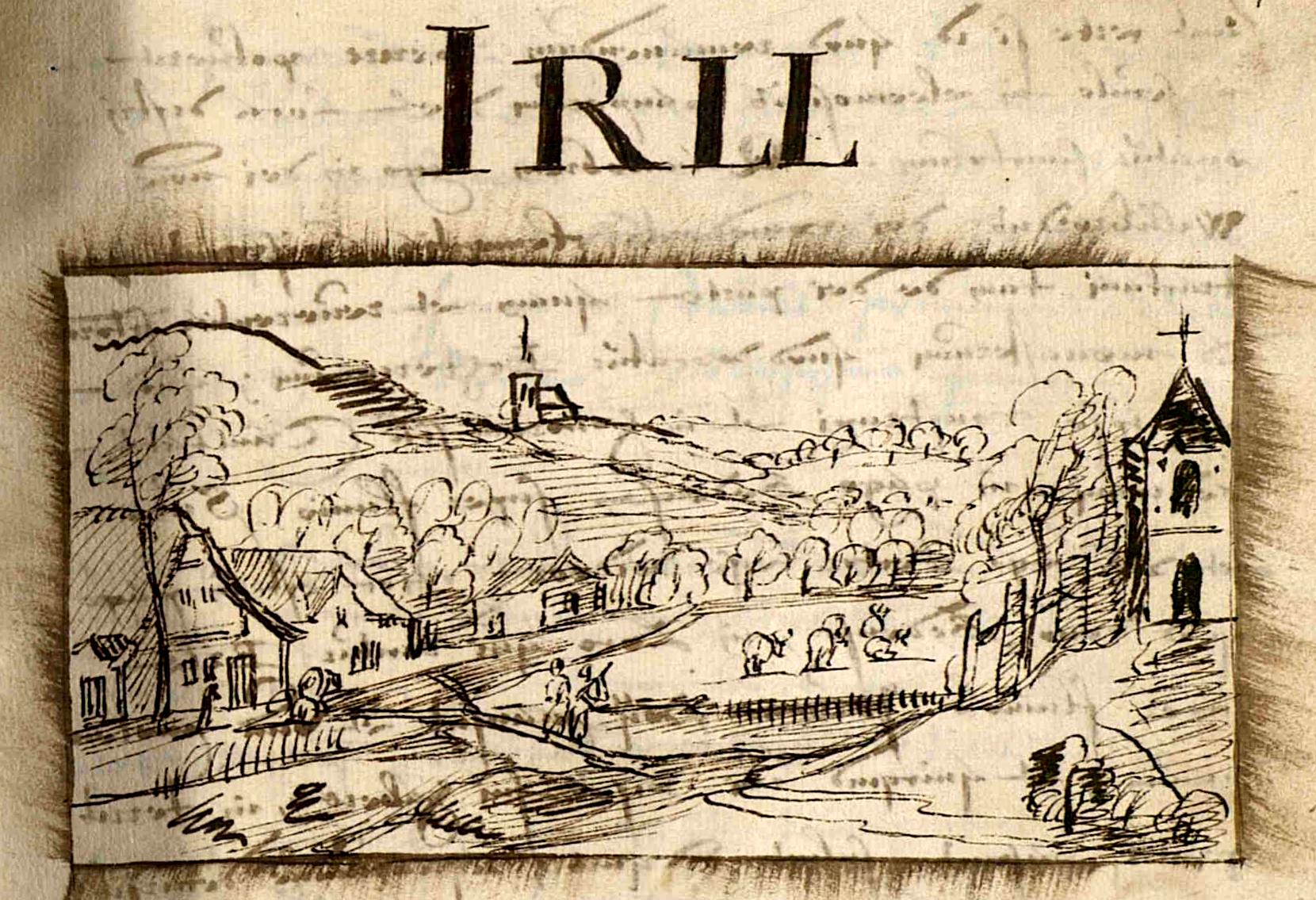 "Irll" (=Irrel) by Jean Bertels (1544-1607)